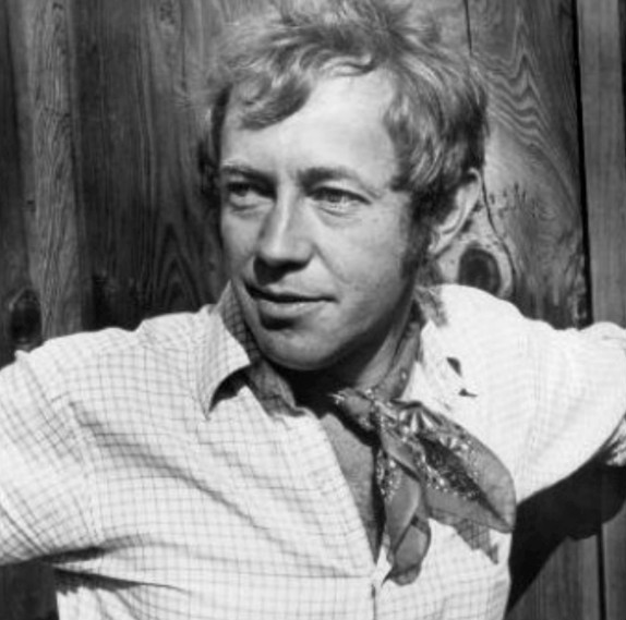 Photo of Noel Harrison from an appearance on television's The Mike Douglas Show.